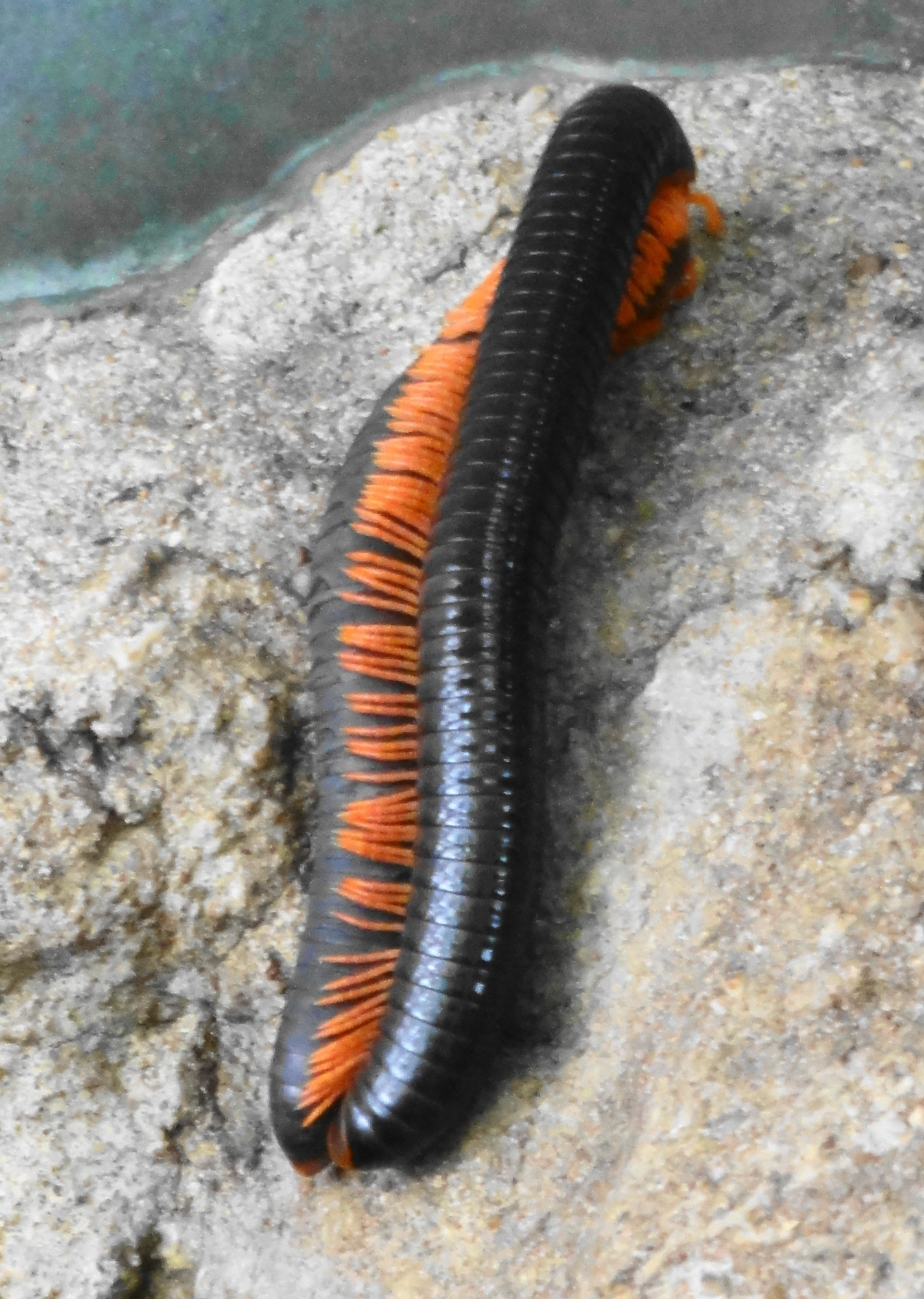 Giant African Millipede in Zoo Frankfurt